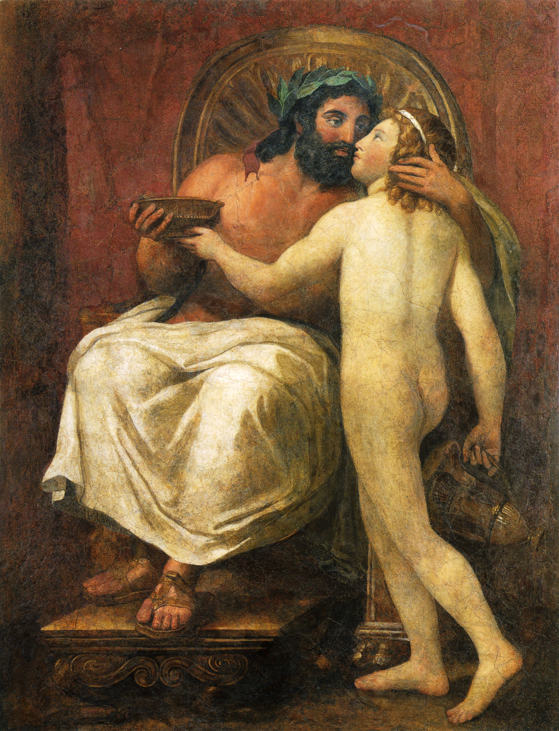 Jupiter Kissing Ganymede, fresco by Anton Raphael Mengs and Giacomo Casanova in 1758. An imitation of an ancient Roman fresco, it was created to fool archeologist and art historian Johann Joachim Winckelmann, who regarded it as an original.